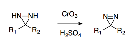 diazirine synthesis by oxidation of diaziridine